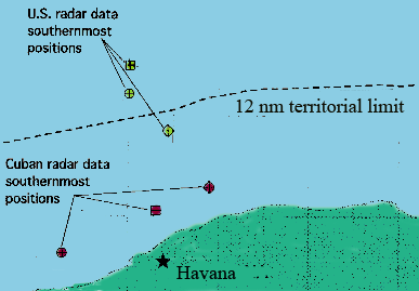 The map shows the southernmost locations according to US and Cuban data of the three planes flown by Brothers to the Rescue on February 24, 1996, prior to two of them being shot down by a Cuban MIG. Map is redrawn and adapted from maps and information in ICAO: "Report on the shooting down of two U.S.-registered private civil aircraft by Cuban military aircraft on 24 February 1996", C-WP/10441, June 20, 1996, United Nations Security Council document, S/1996/509, July 1, 1996, [1]